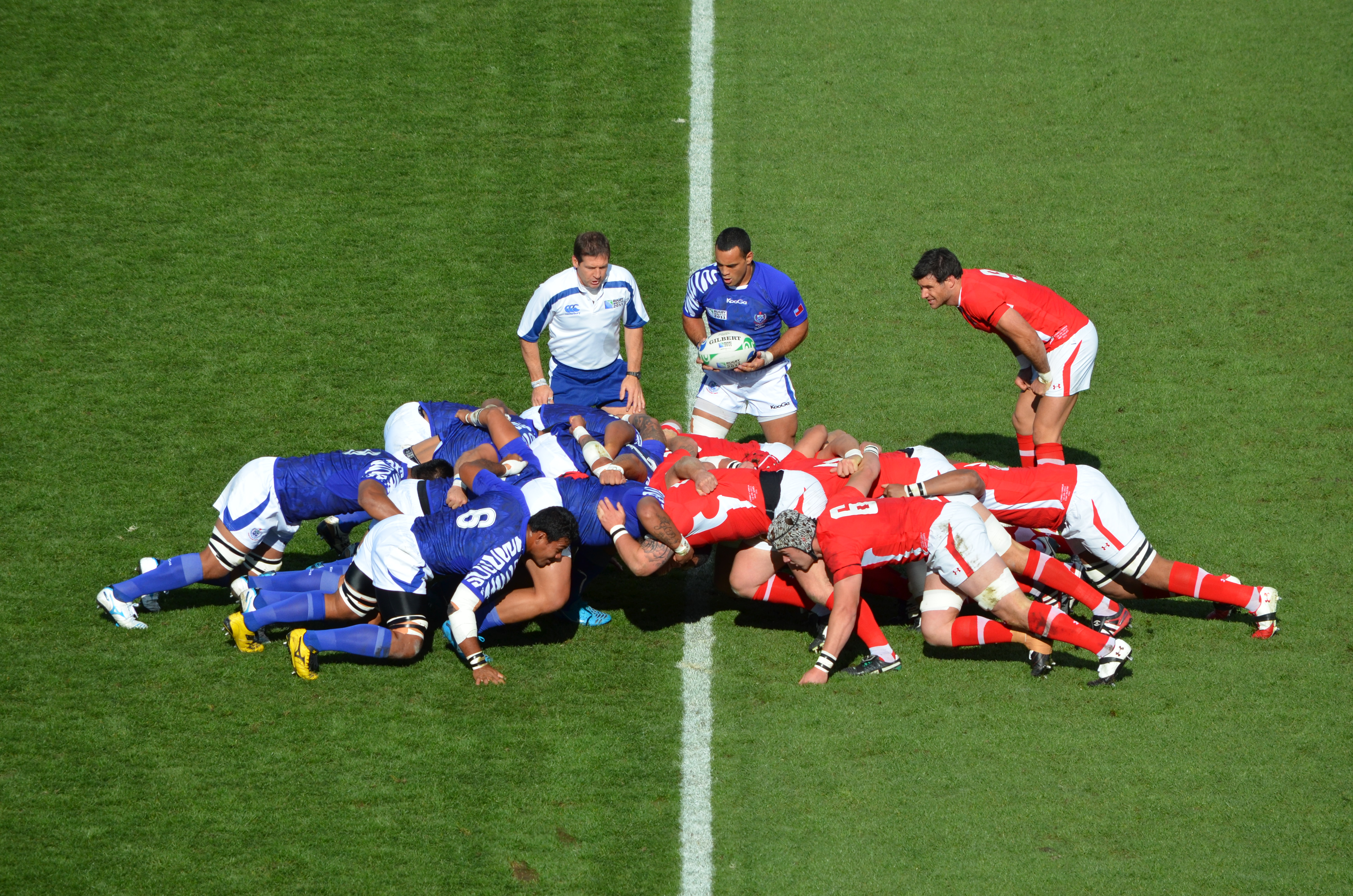 DSC_0803 2011 Rugby World Cup Wales vs Samoa